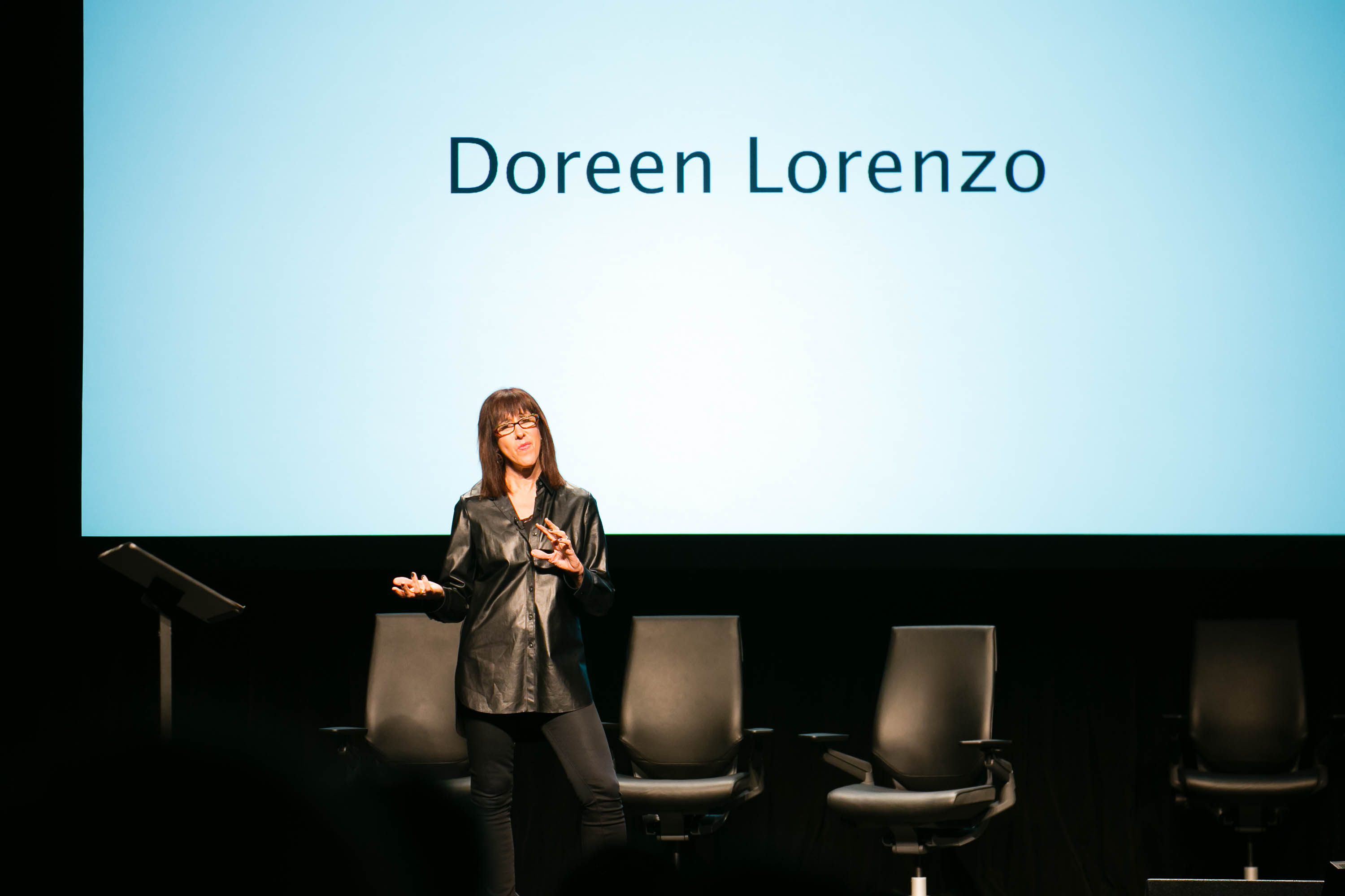 Asa Mathat for PopTech